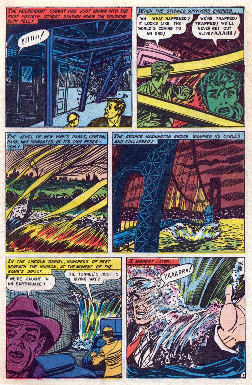 Comic page of Atomic War! #1, Page 9, November 1952, Published 1952-1953, the series presents a fictional account of an atomic war between Russia and the United States of America, set in 1960, mostly from the viewpoint of US military participants.